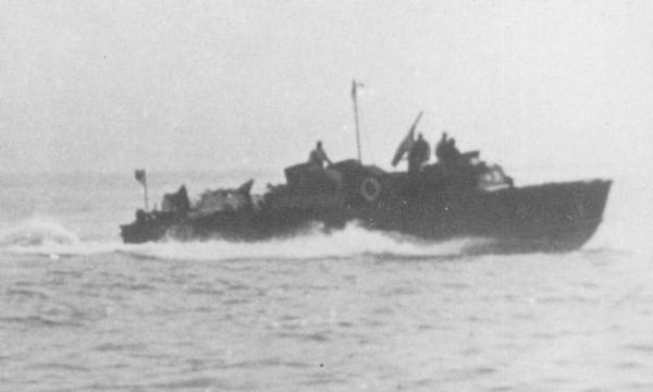 Japanese Motor Torpedo Boat Type-241, off Choshi Bay.